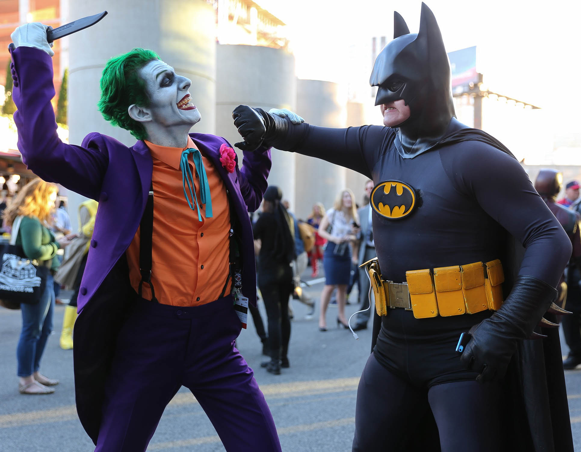 Cosplay at the 2016 New York Comic Con.